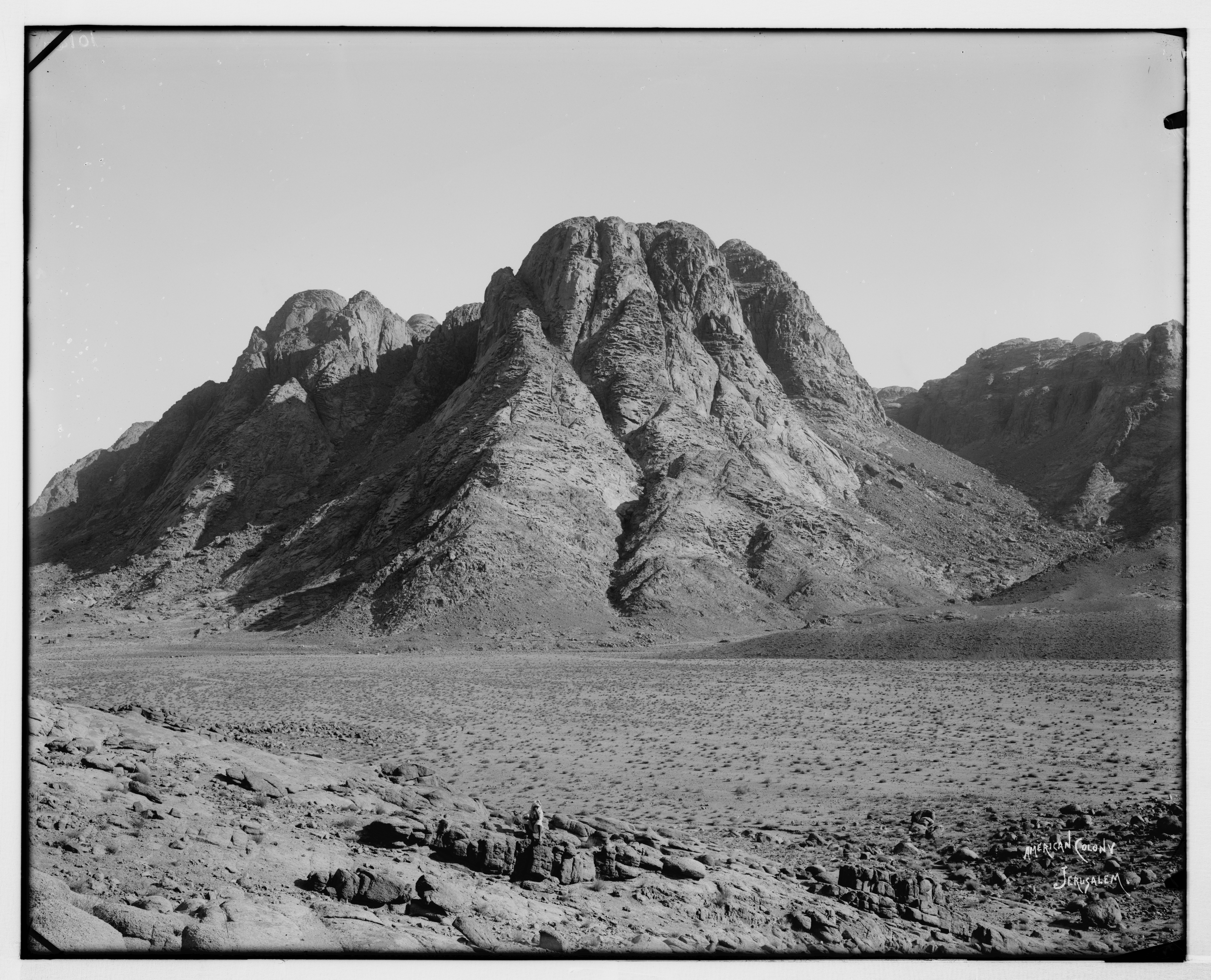 Title: Sinai. Ras Safsaf (Mt. Sinai), near view from Wady er-Raha. Abstract/medium: G. Eric and Edith Matson Photograph Collection Physical description: 1 negative